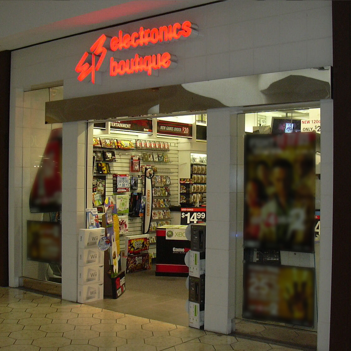 One of the few remaining Electronics Boutique locations in the United States. This store is located in Ann Arbor, Michigan in Briarwood Mall. On the date the picture was taken the store was owned by Gamestop but retained the original Electronics Boutique name with no timetable on a transition to the Gamestop name. Wikipedia:Graphics_Lab/Photography_workshop#File:Electronics_Boutique_-_Store_4565_.2810-13-09.29.jpg